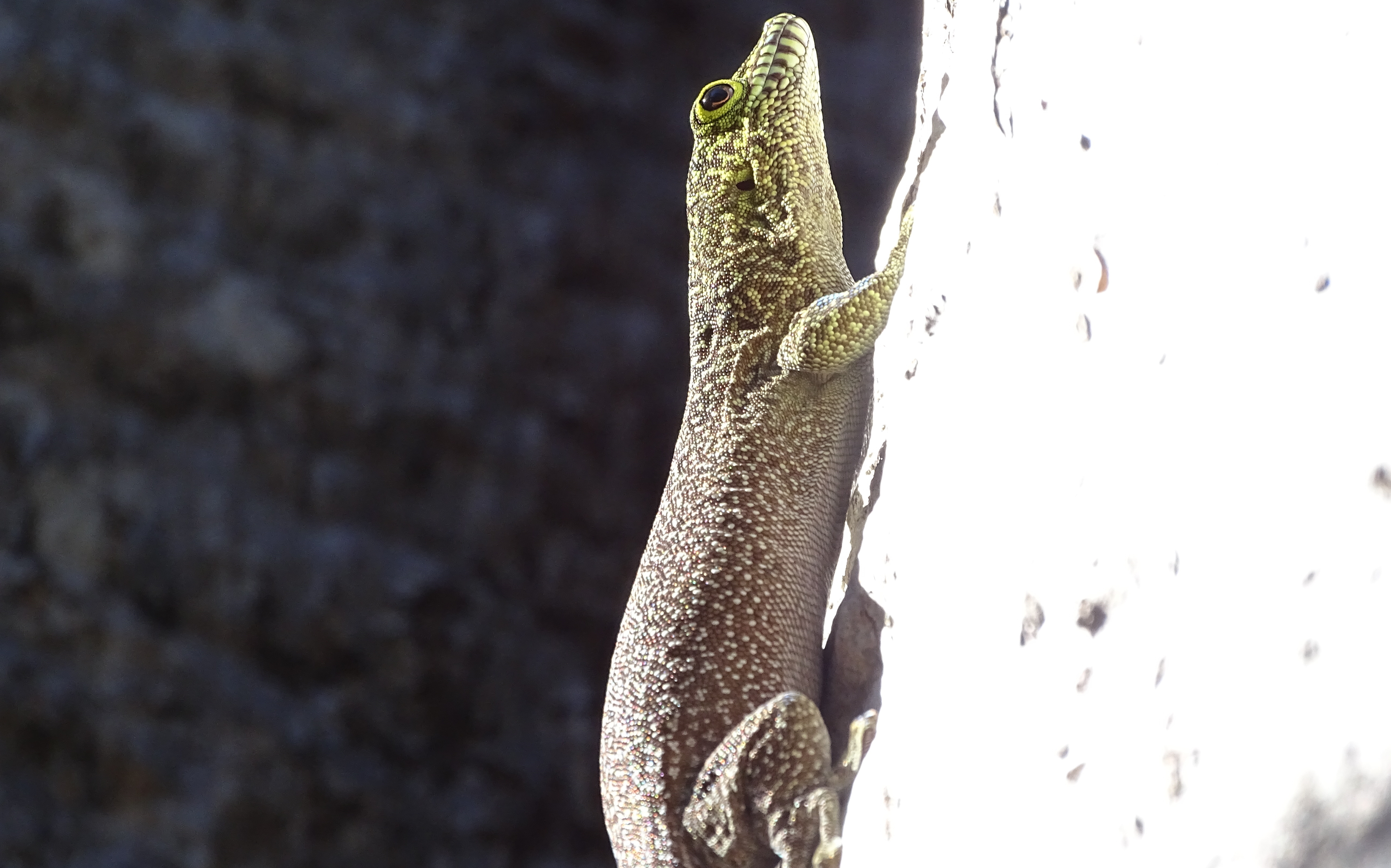 Standing's day gecko (Phelsuma standingui) at Zombitse-Vohibasia National Park